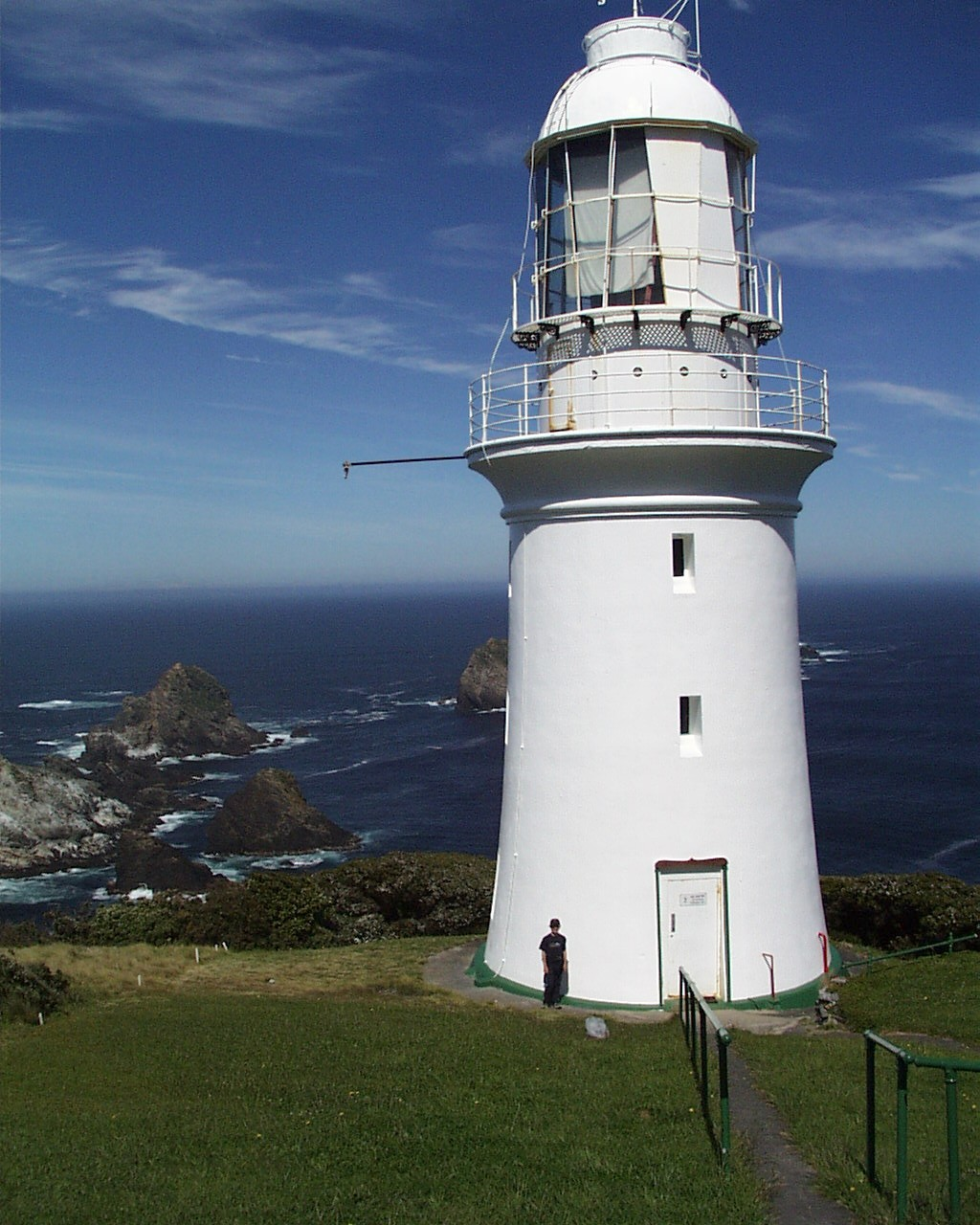 The Maatsuyker Islands lighthouse in Tasmania, Australia.